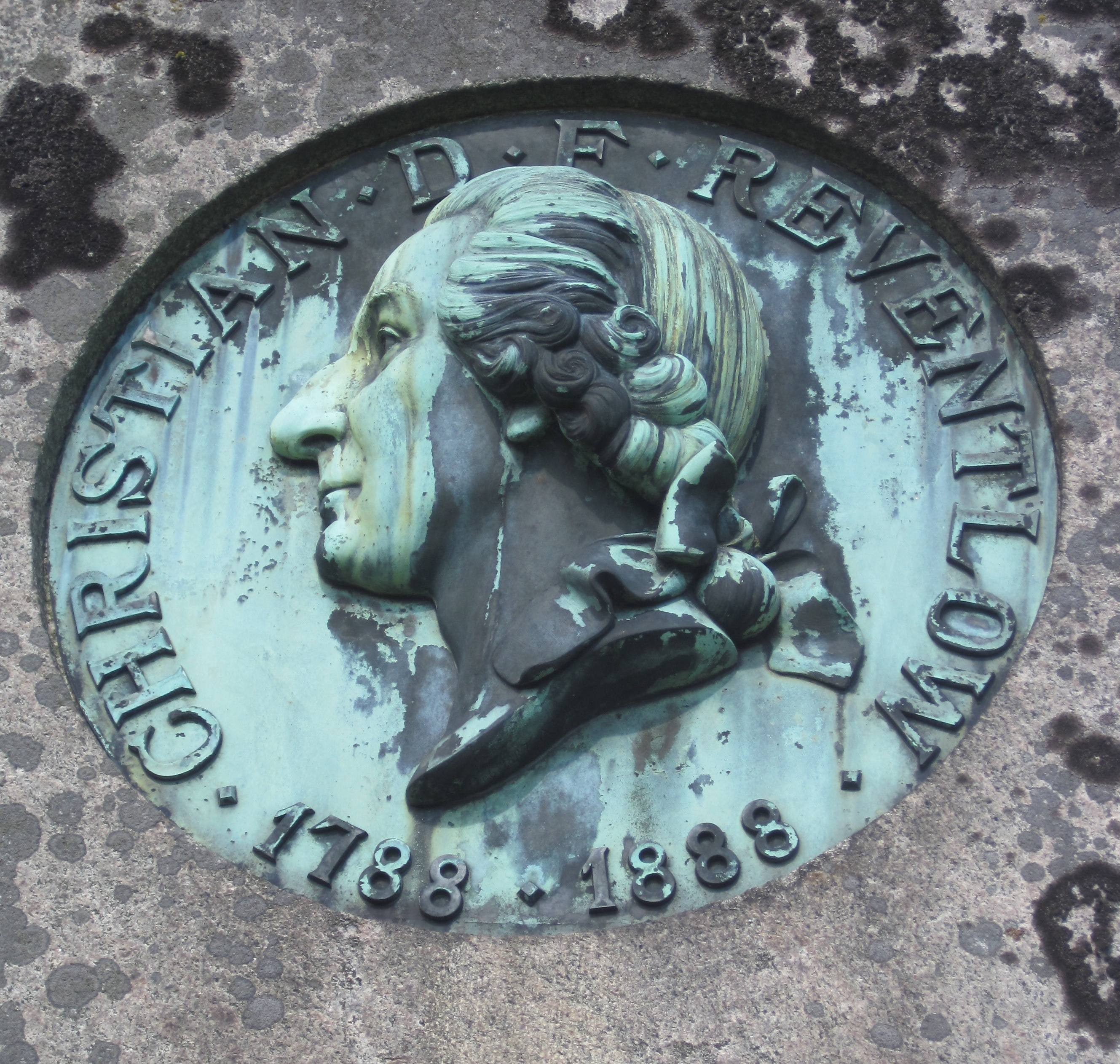 Medallion picturing Christian Ditlev Frederik Reventlow (1748-1827) on a monument erected in the park of Frederiksborg Palace in 1888.